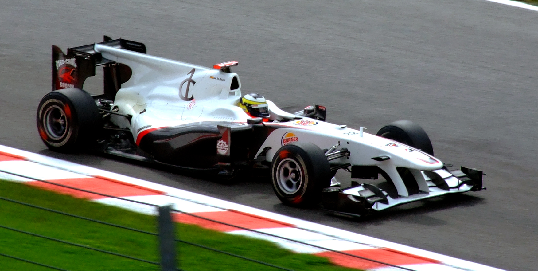 Pedro De La Rosa, BMW Sauber C29, entering Pouhon, Spa-Francorchamps, Second Practice, 2010 Belgian Grand Prix.